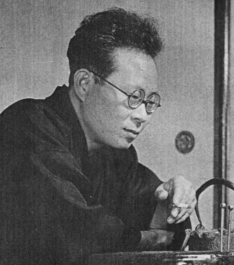 Portrait of Fuyuhiko Kitagawa